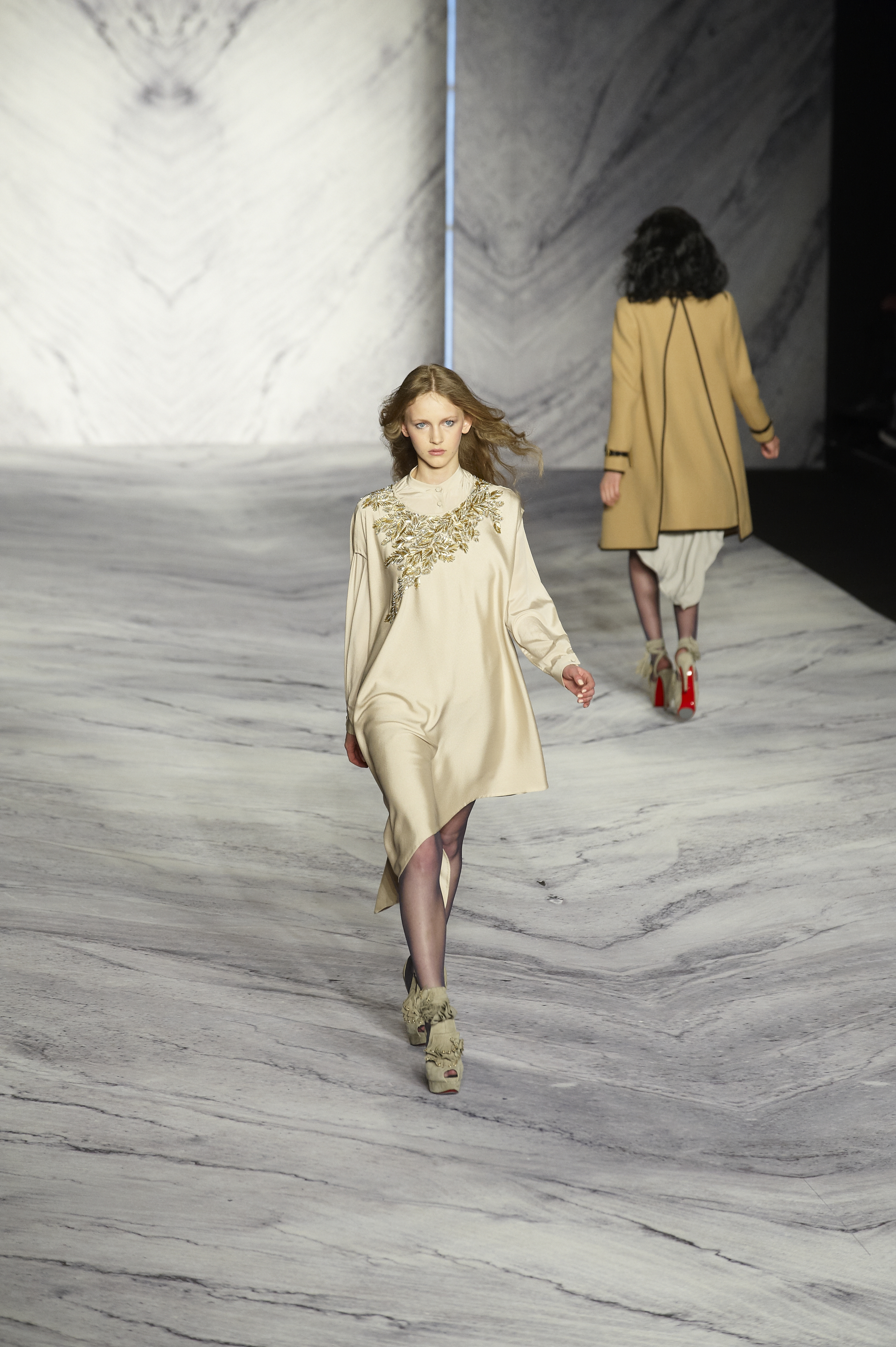 A model walks the runway at the 3.1 Phillip Lim Fall/Winter 2010 show at New York Fashion Week, February 2010.